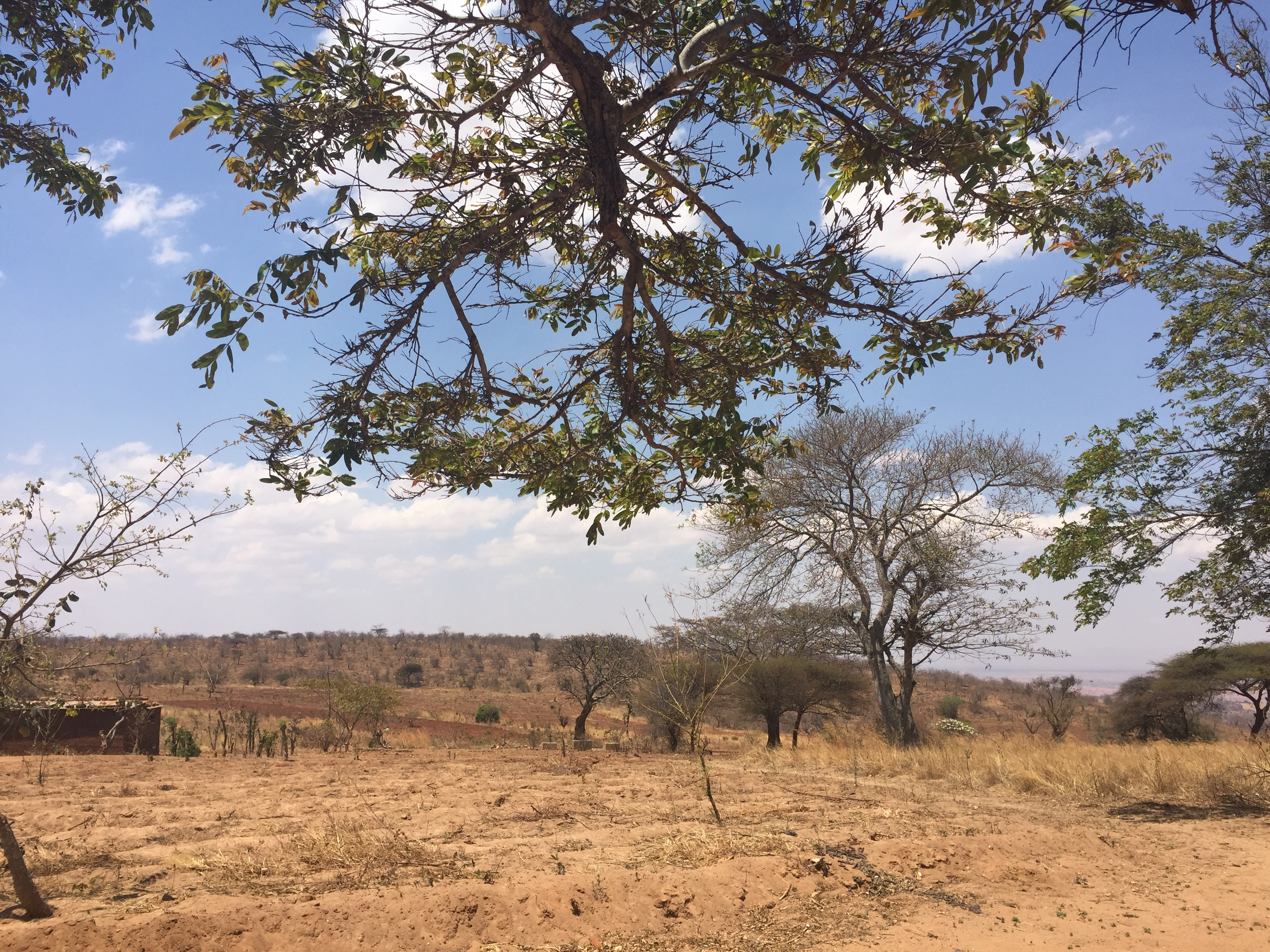 A poor rural community after the failure of the rains, facing drought and food insecurity.